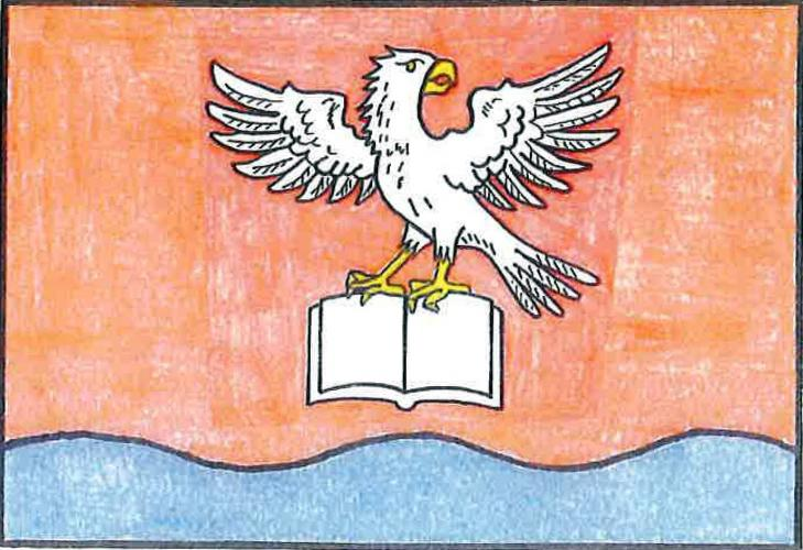 Flag of Libočany, Louny District, Czech Republic.